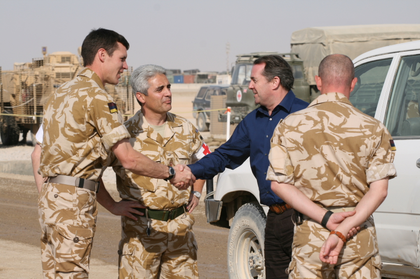 Dr Liam Fox MP visiting British troops in Kandahar, Afghanistan.